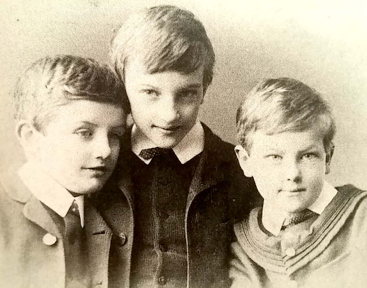 Pelham Grenville Wodehouse (on right) with brothers Peveril and Armine